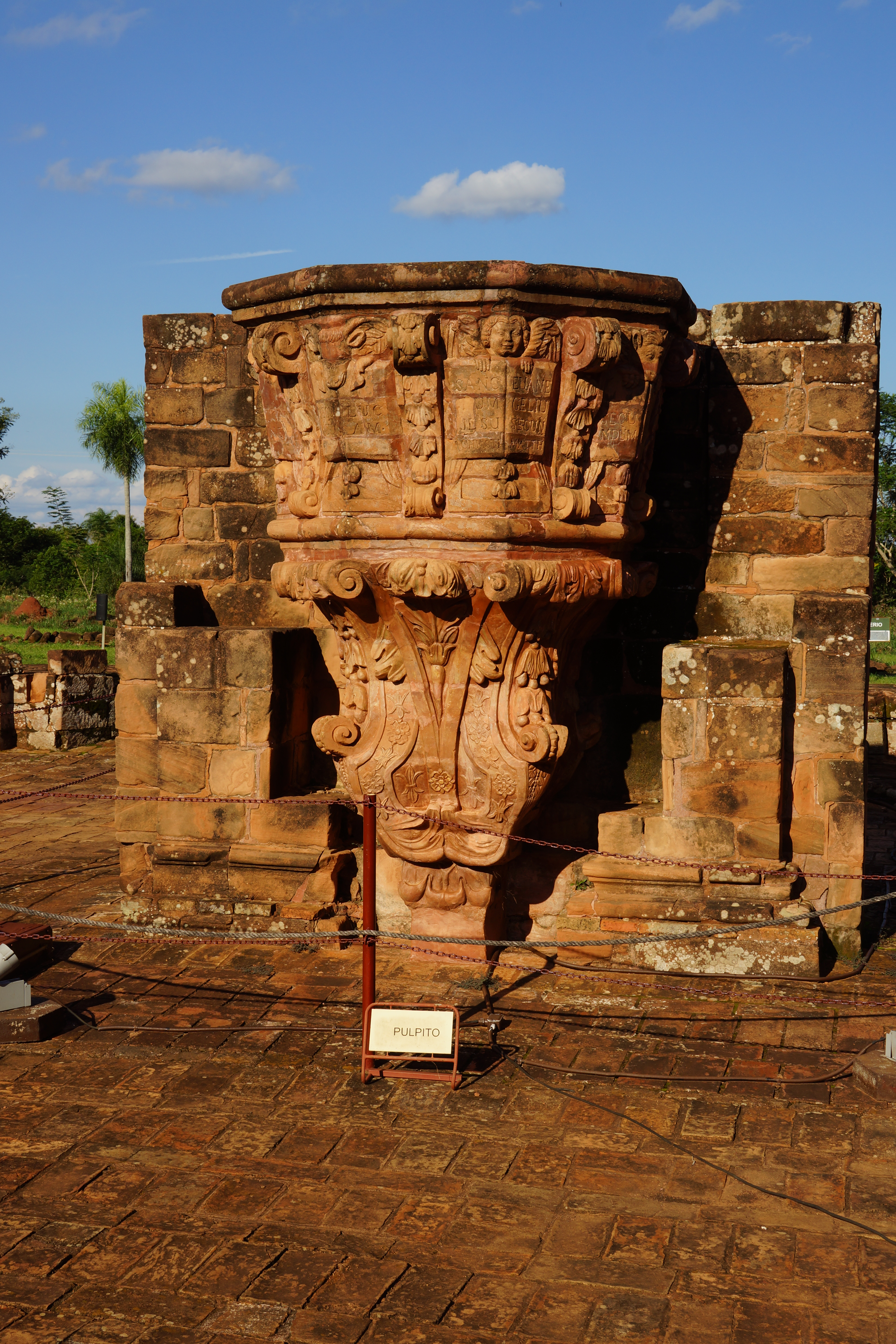 The pulpit of the church of the Jesuit Reduction of Trinidad, Southern Paraguay.